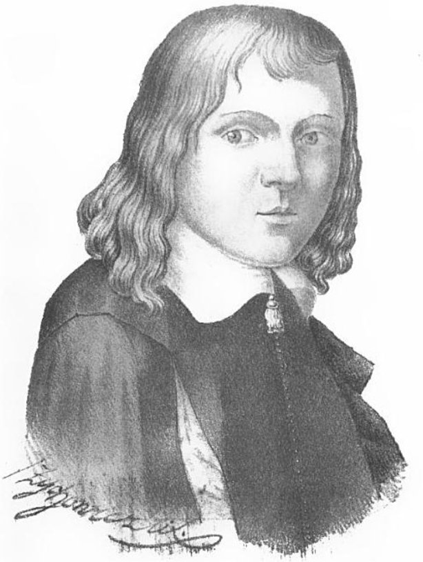 polish writer and priest